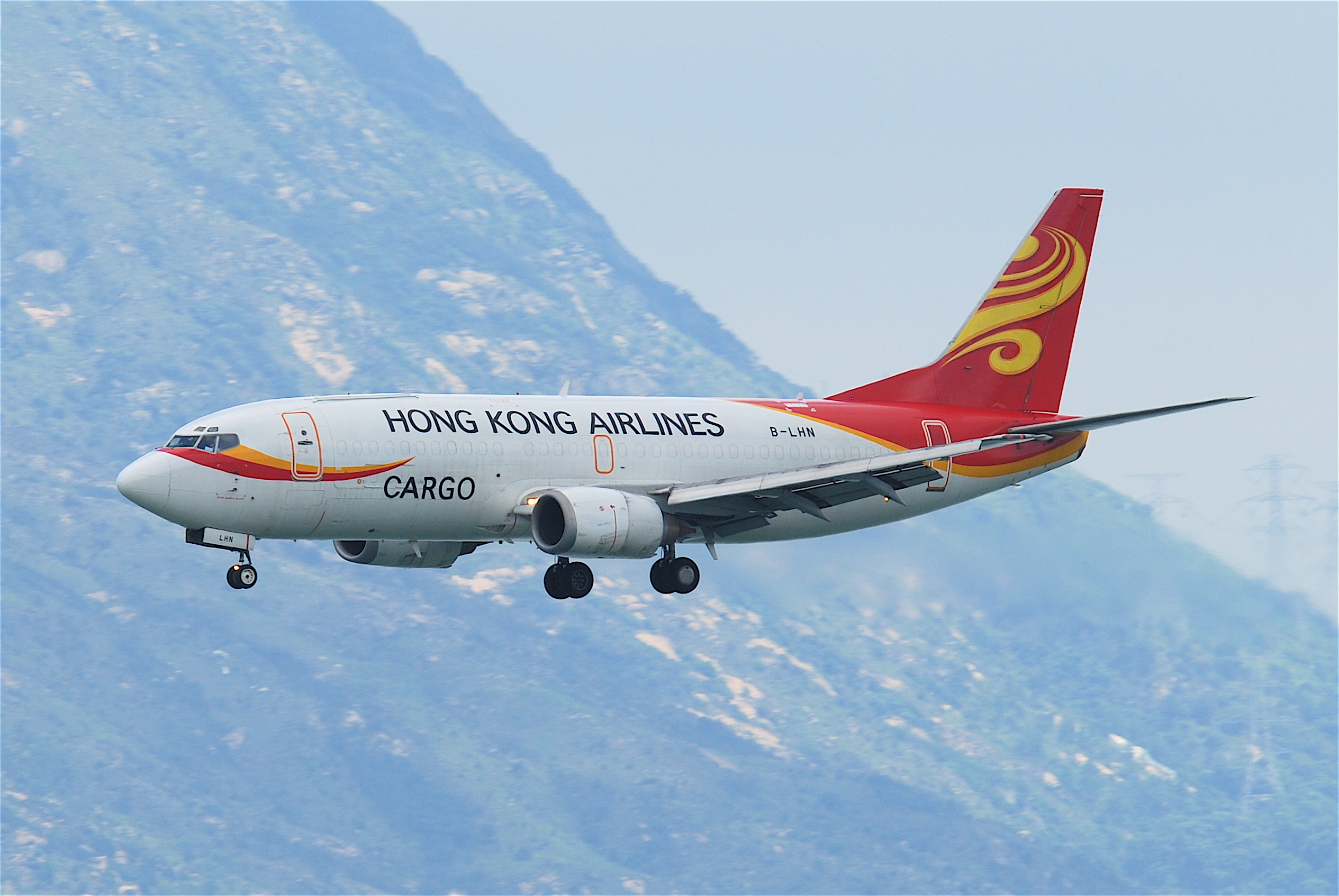 HongKong Airlines Airlines Cargo Boeing 737-300; B-LHN@HKG;31.07.2011/614eo